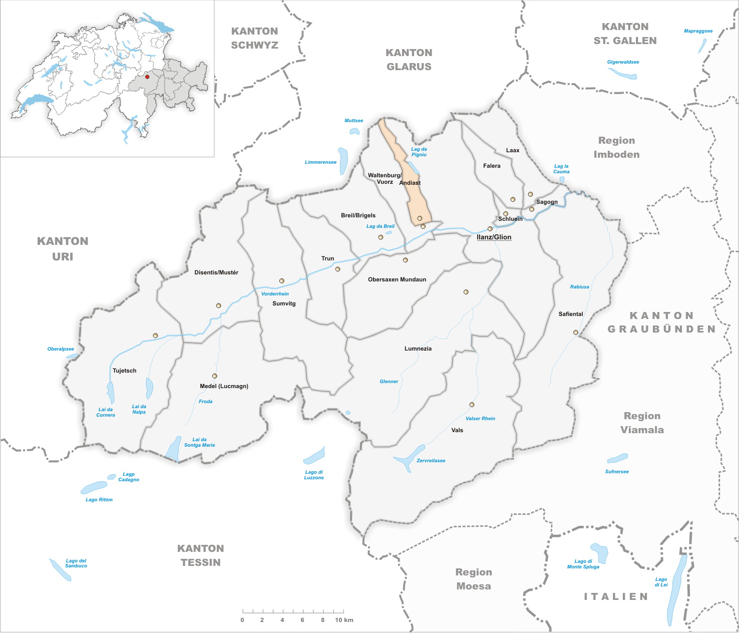 Municipality Andiast